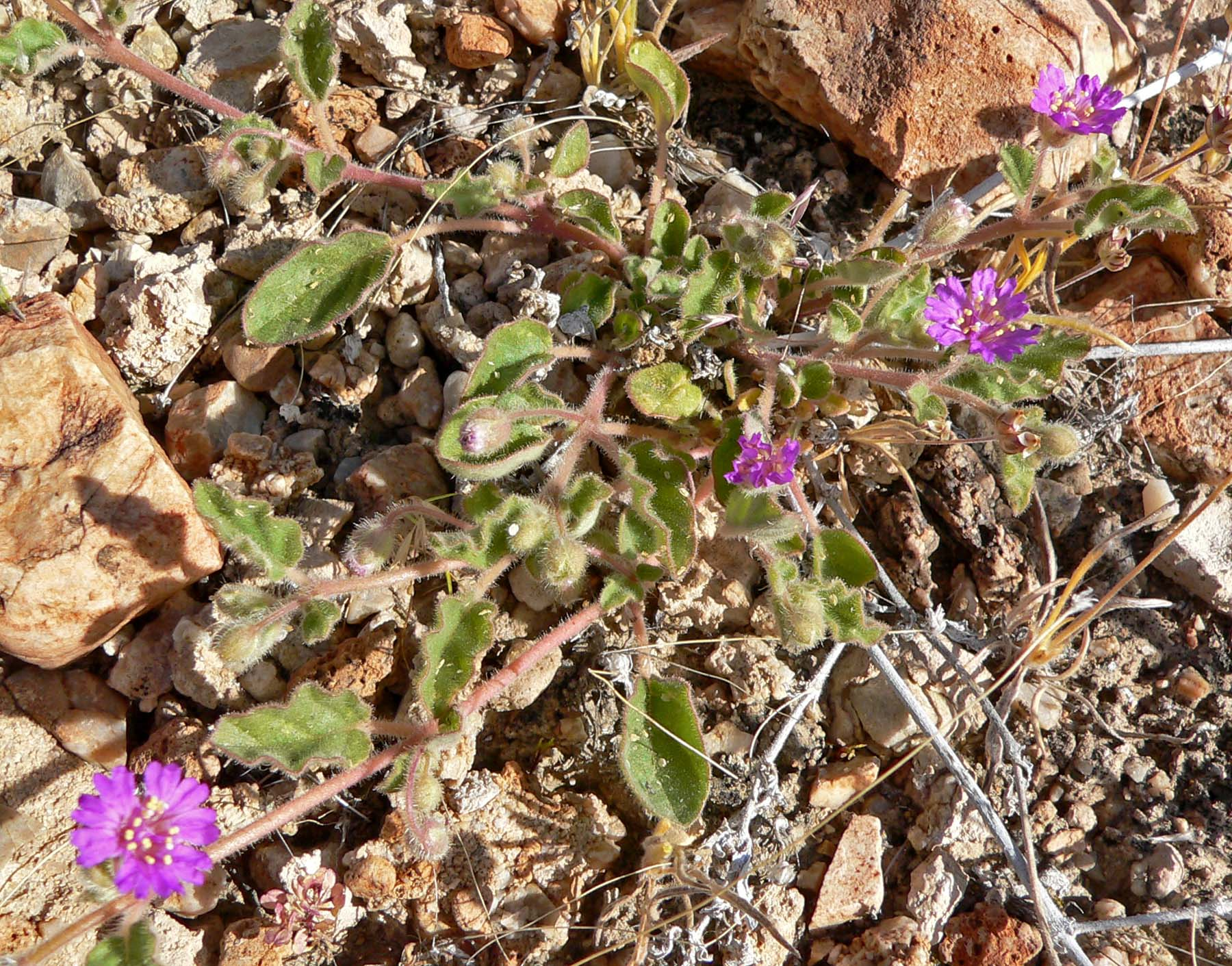 Photo of Allionia incarnata just outside Red Rock Canyon, Nevada